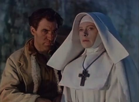 David Farrar & Deborah Kerr in Black Narcissus - trailer (cropped screenshot)